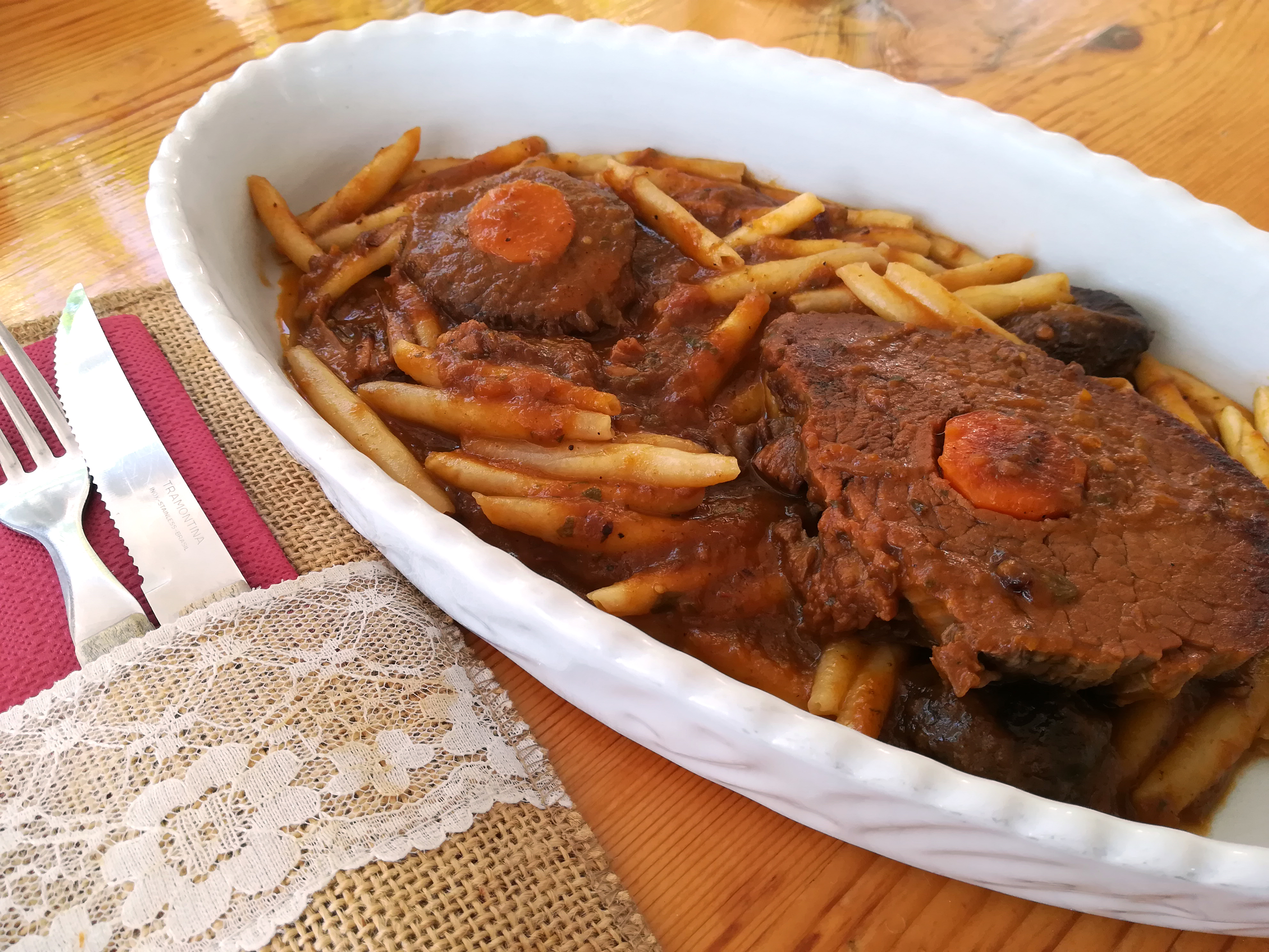 Pašticada is a traditional beef stew from Southern Croatia.